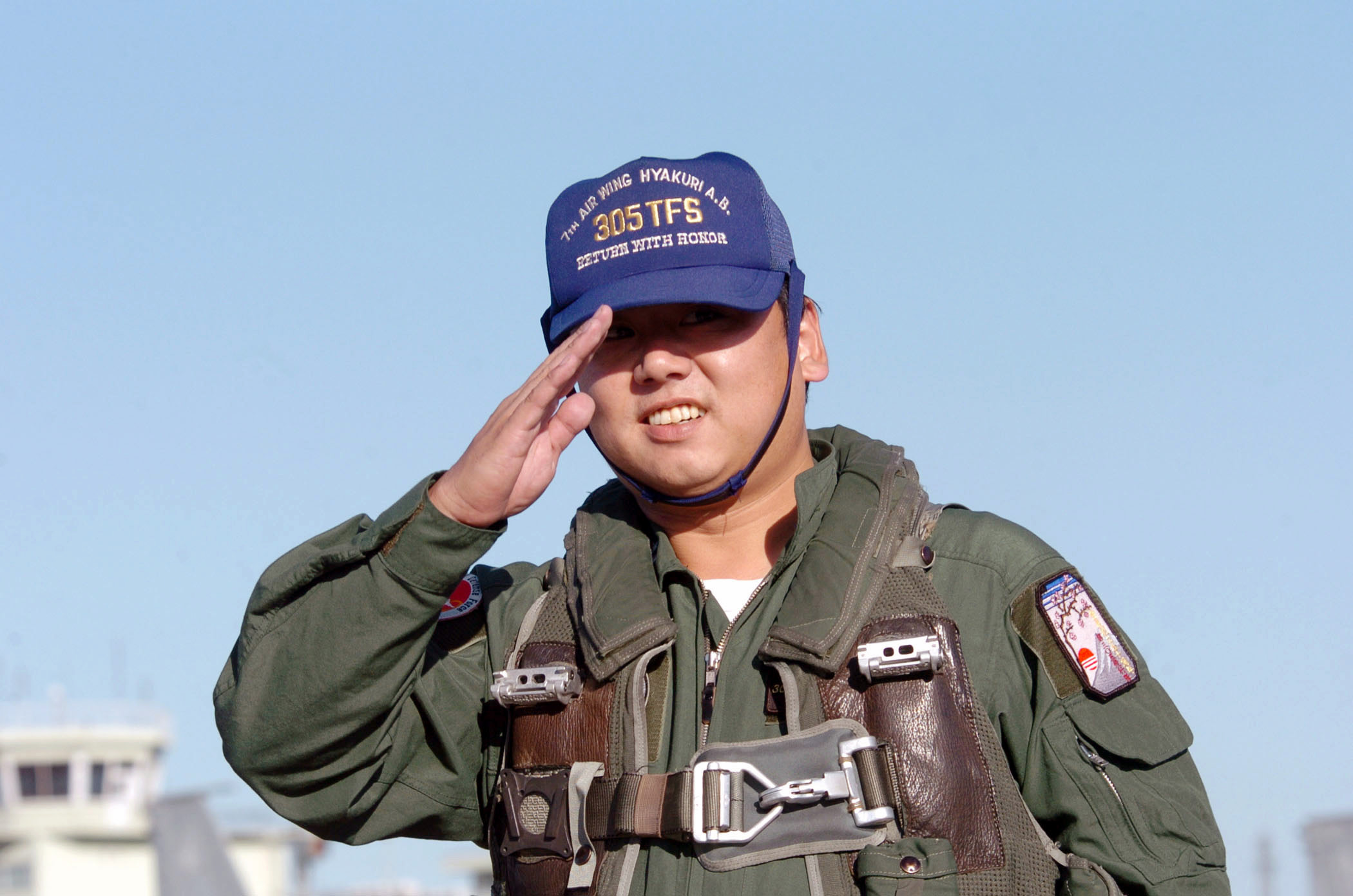 A Japan Air Self-Defense Force F-15J pilot of 305 Sqn salutes during exercise Keen Sword 05 at Hyakuri Air Base, on Nov. 17, 2004. (U.S. Air Force Photo by Master Sgt. Val Gempis/Released) Nikon D2H